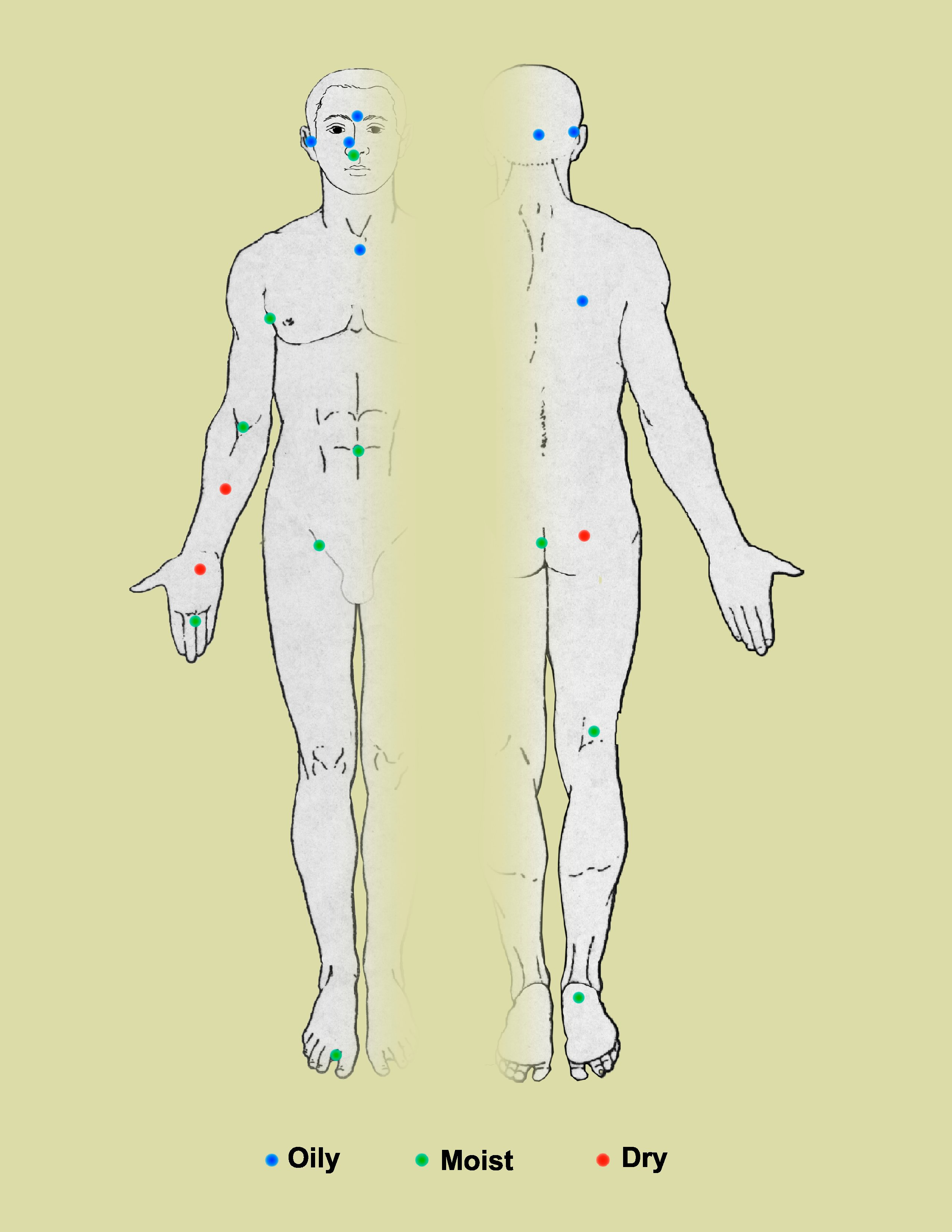 ecology of 20 sites on the human body targeted for analysis of microbial genome sequencing.